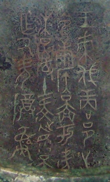 Inscription on the "Kang hou gui" (bottom row of characters slightly clipped).